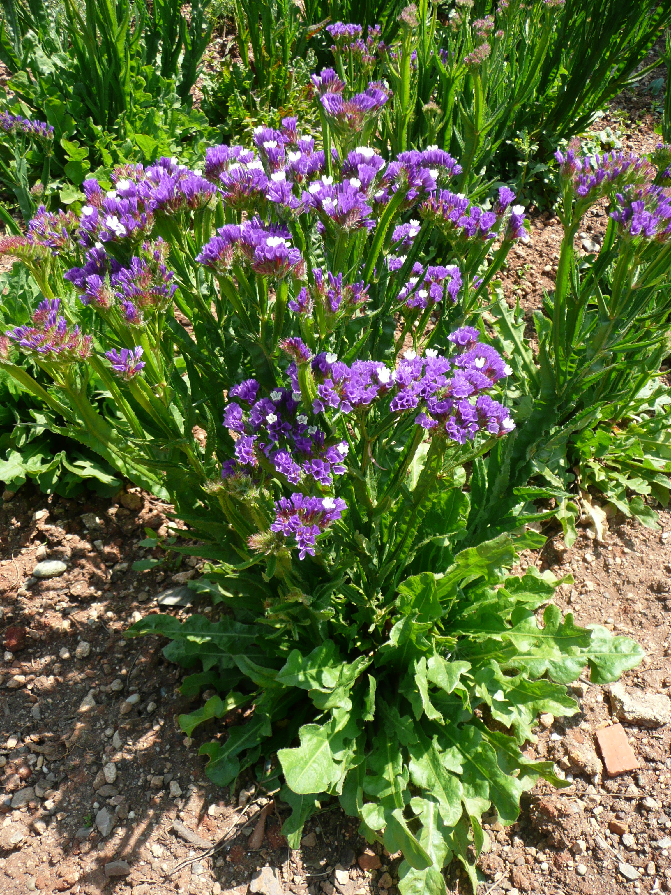 Photographs from TEMA, Nezahat Gökyiğit Park, Istanbul Location encoded in EXIF